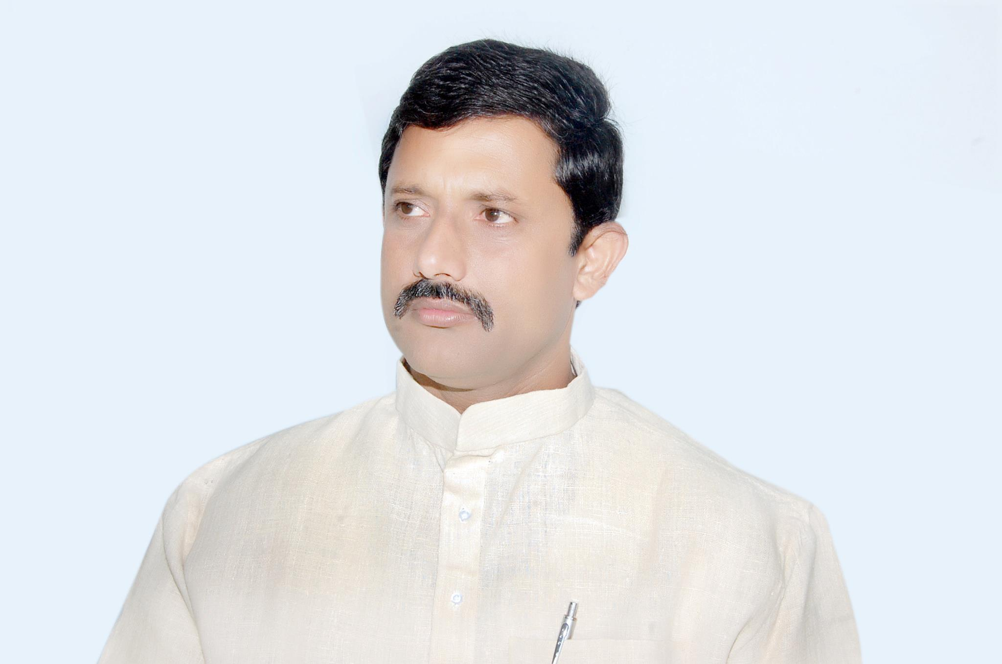 image of mla vijay bahadur yadav